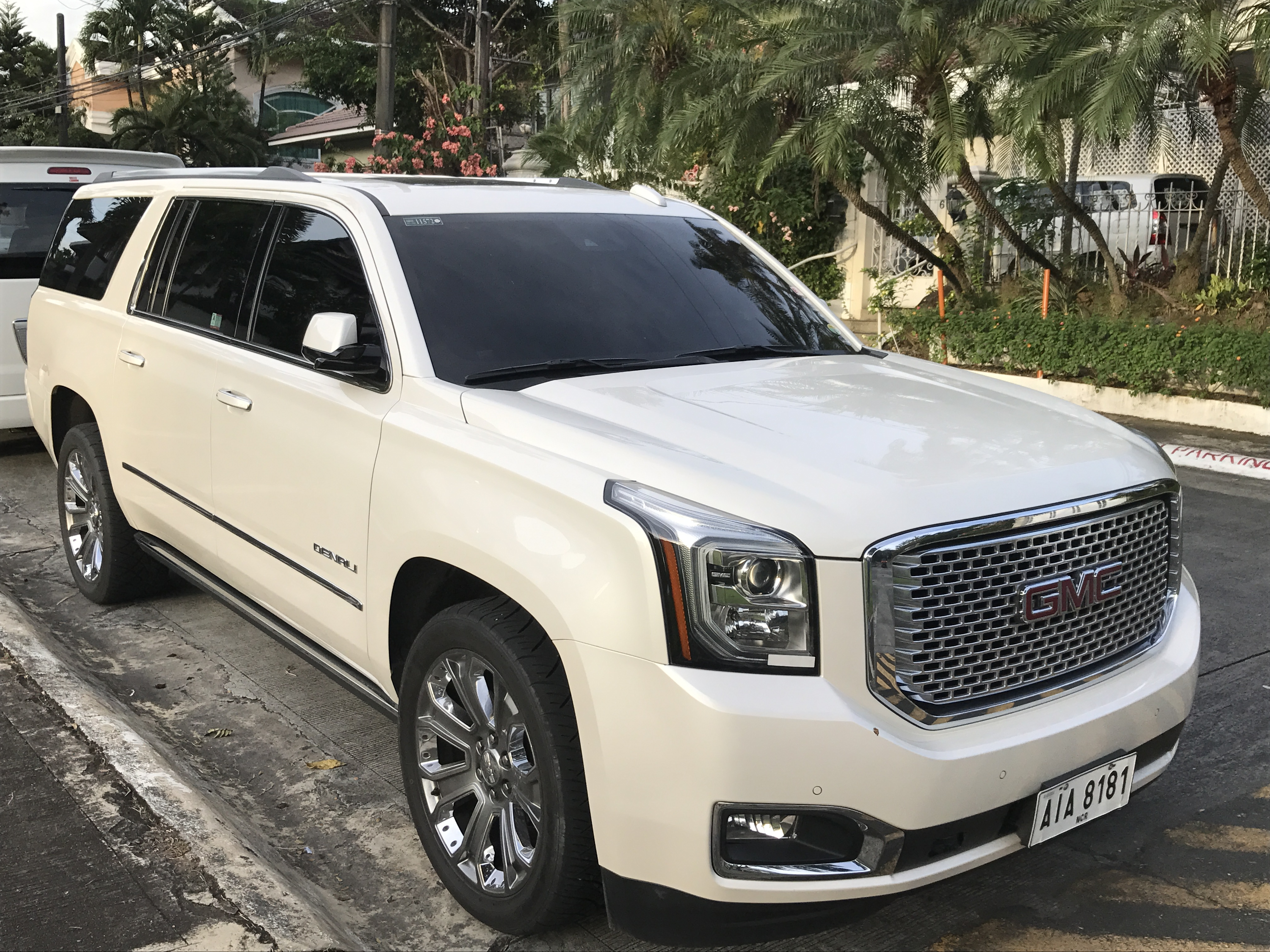 Front side of a GMC Yukon XL Denali.